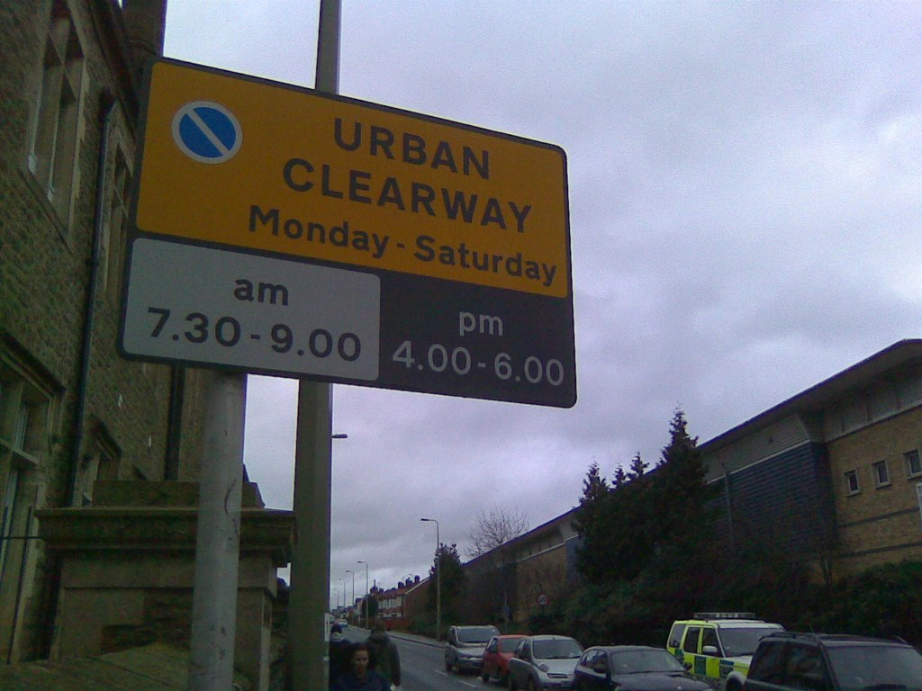 Urban clearway sign, Hollow Way, Cowley, Oxfordshire